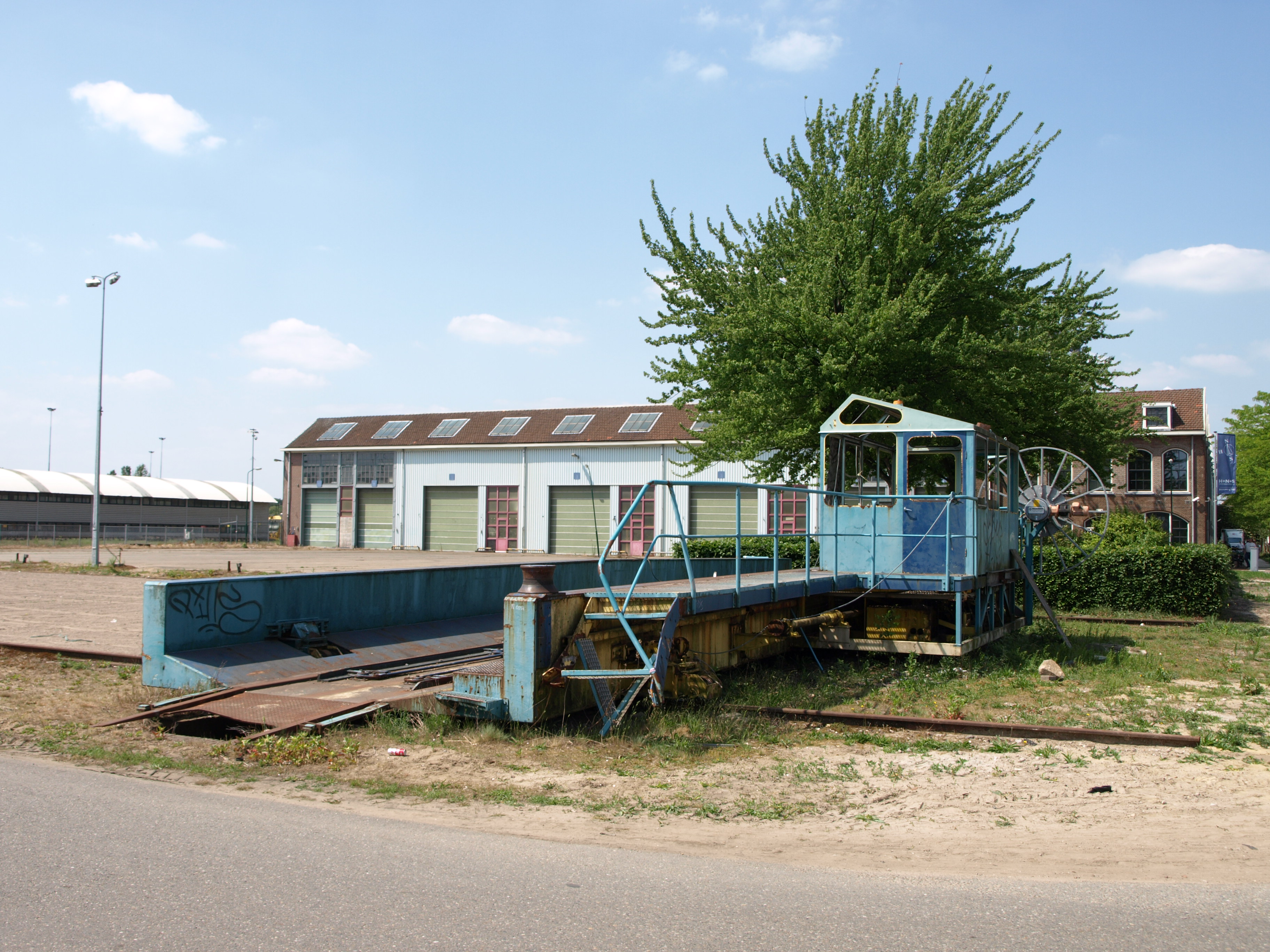 Amersfoort Railway Workshop (Nl)